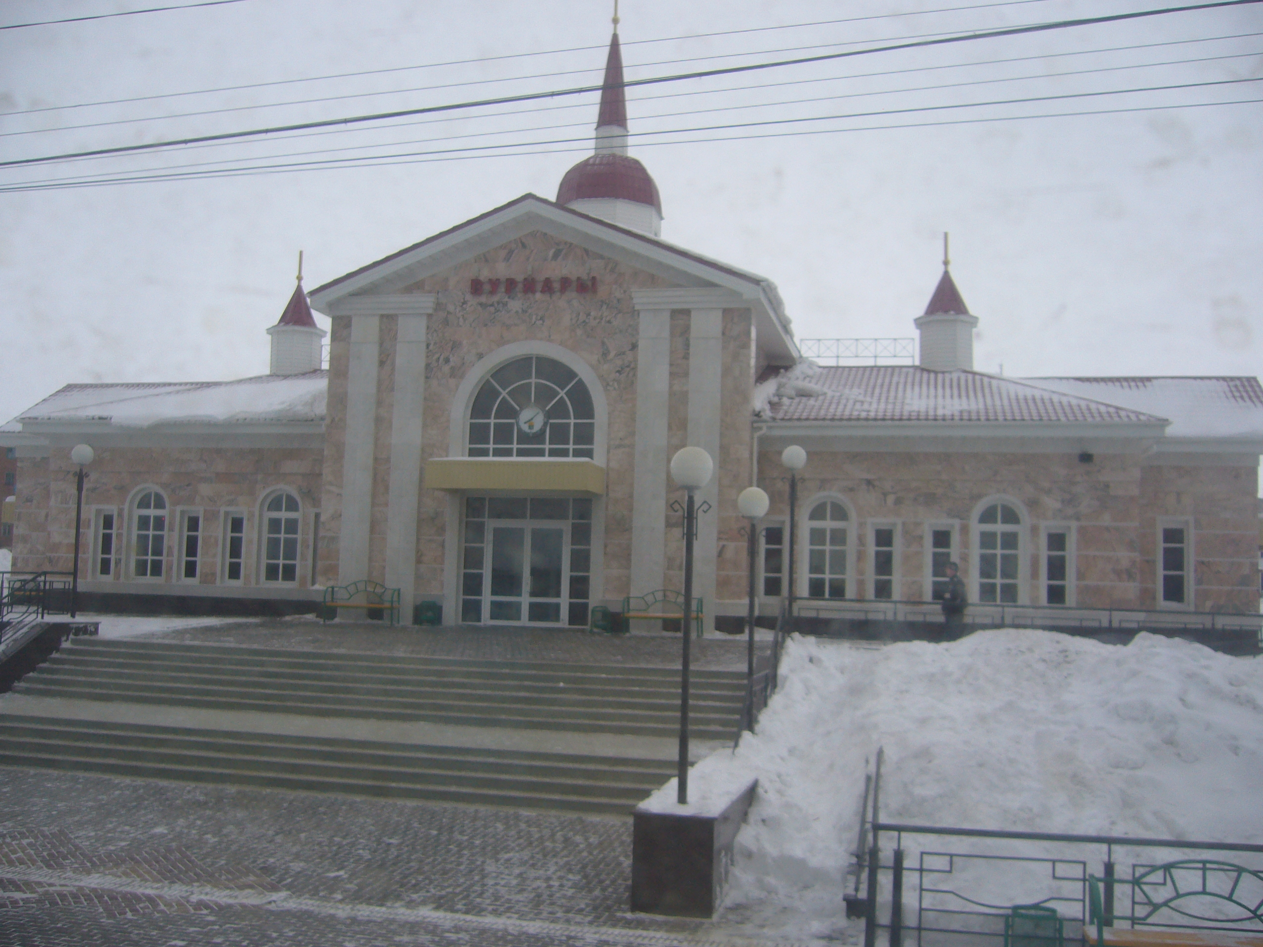 Vurnari railstation, Kanash-Arzamas rail road.